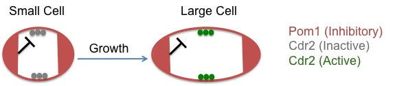 Cdr2 Inhibition by Pom1 in Small Cells and Large Cells